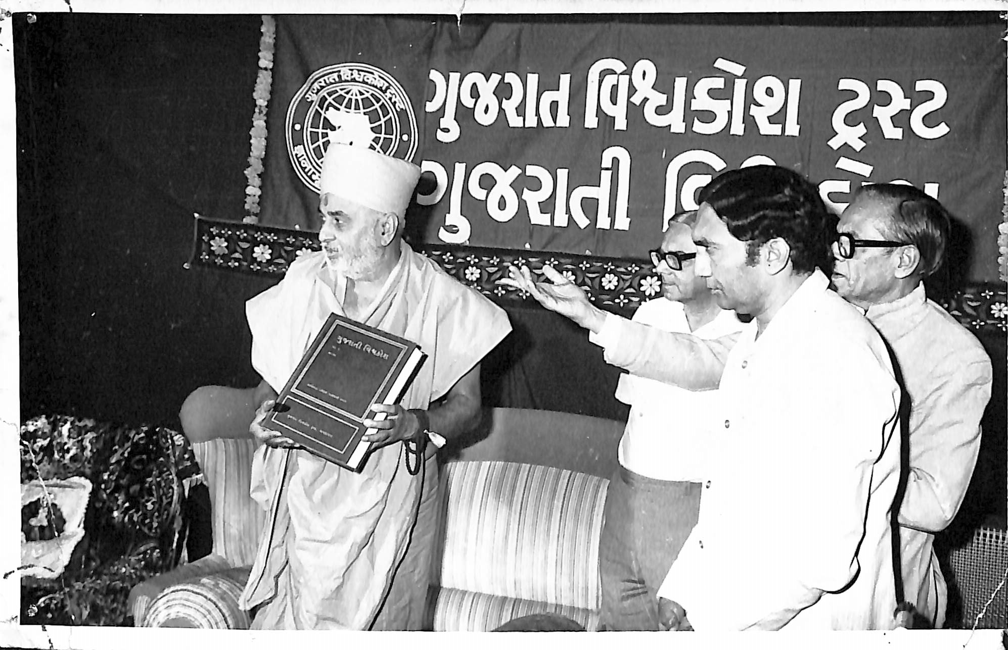 Gujarati Vishwakosh, Image 17